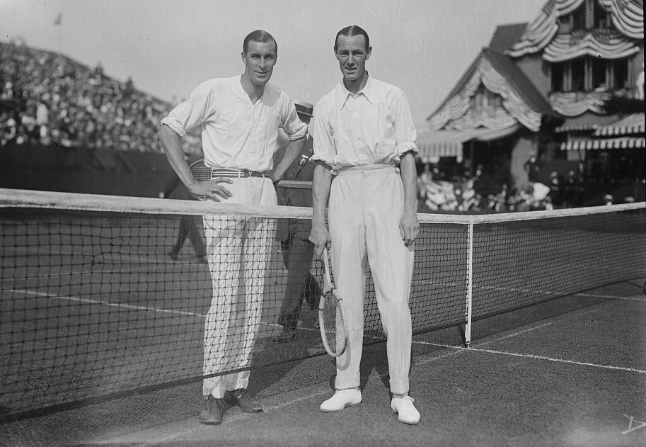 Bain News Service, publisher. Tilden and Anderson (tennis) 1 negative : glass ; 5 x 7 in. or smaller. Notes: Title from unverified data provided by the Bain News Service on the negatives or caption cards. Forms part of: George Grantham Bain Collection (Library of Congress). General information about the Bain Collection is available at Temp. note: Batch seven loaded. Format: Glass negatives. Repository: Library of Congress Prints and Photographs Division Washington, D.C. 20540 USA General information about the Bain Collection is available at Persistent URL: [1] Call Number: LC-B2- 2263-11